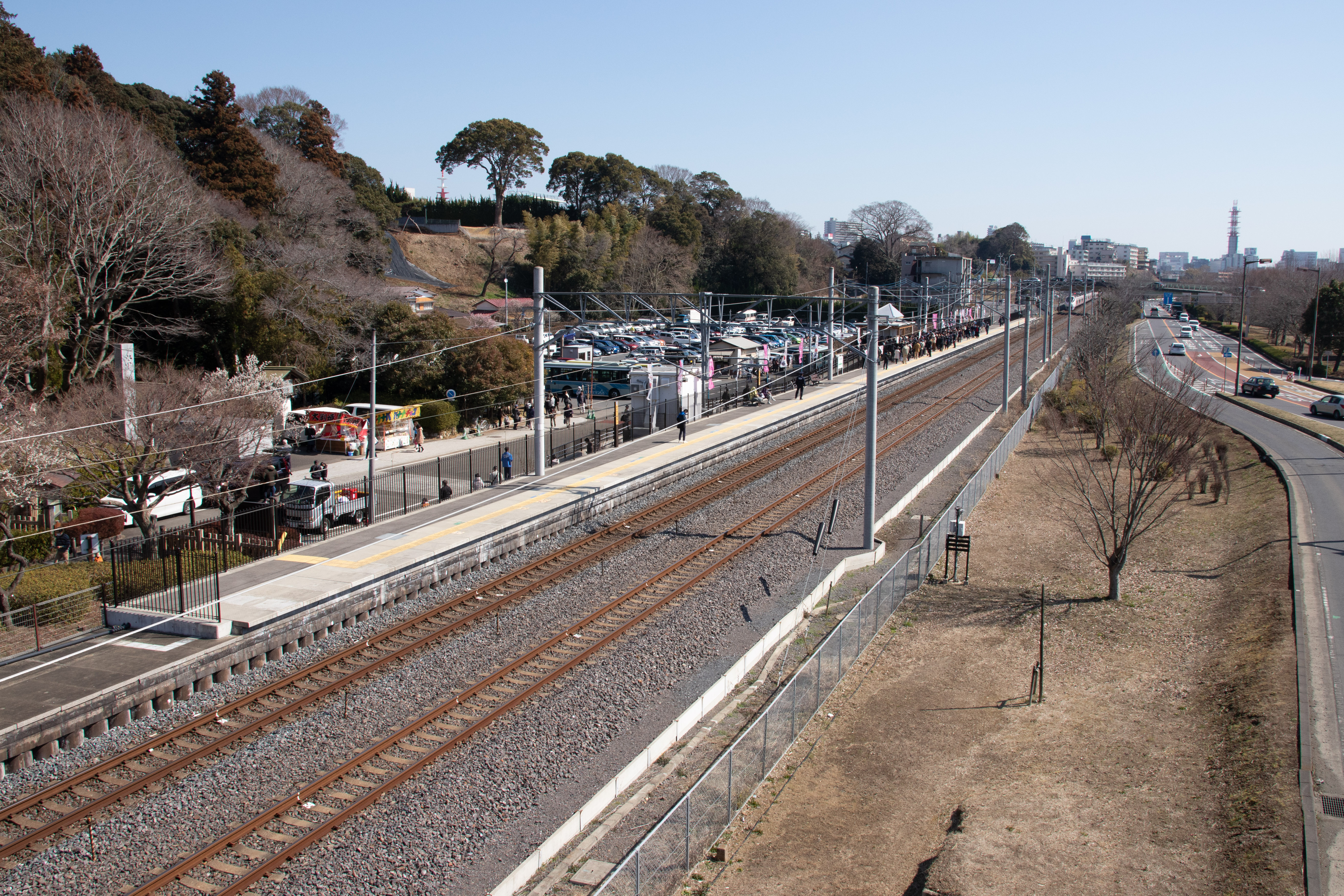 Kairakuen Station in Mito City, Ibaraki Prefecture, Japan Canon EOS 80D + Sigma 17-70mm F2.8-4 DC Macro OS HSM